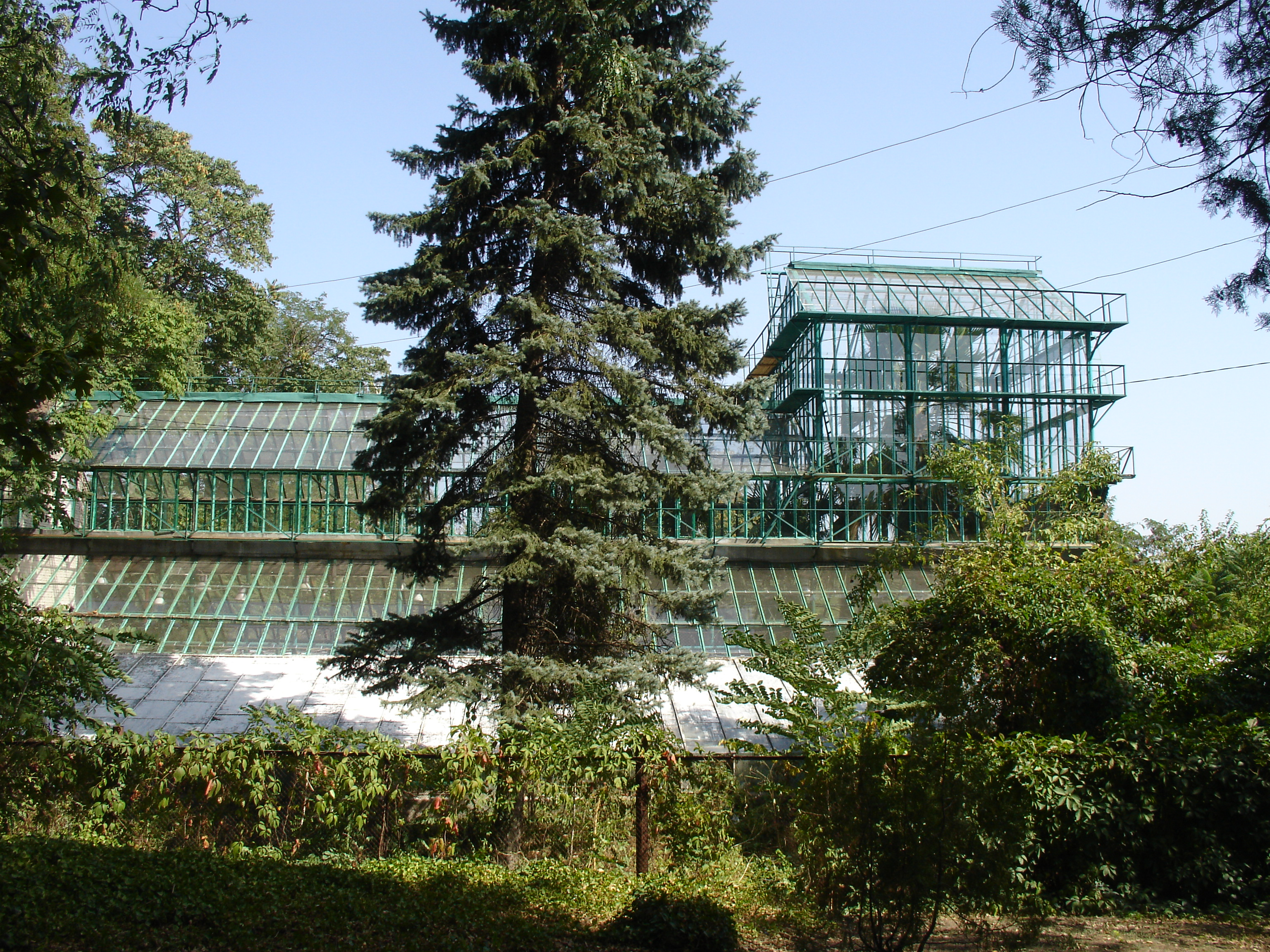 Big greenhouse in Rostov Botanic Garden, Rostov-on-Don, Russia